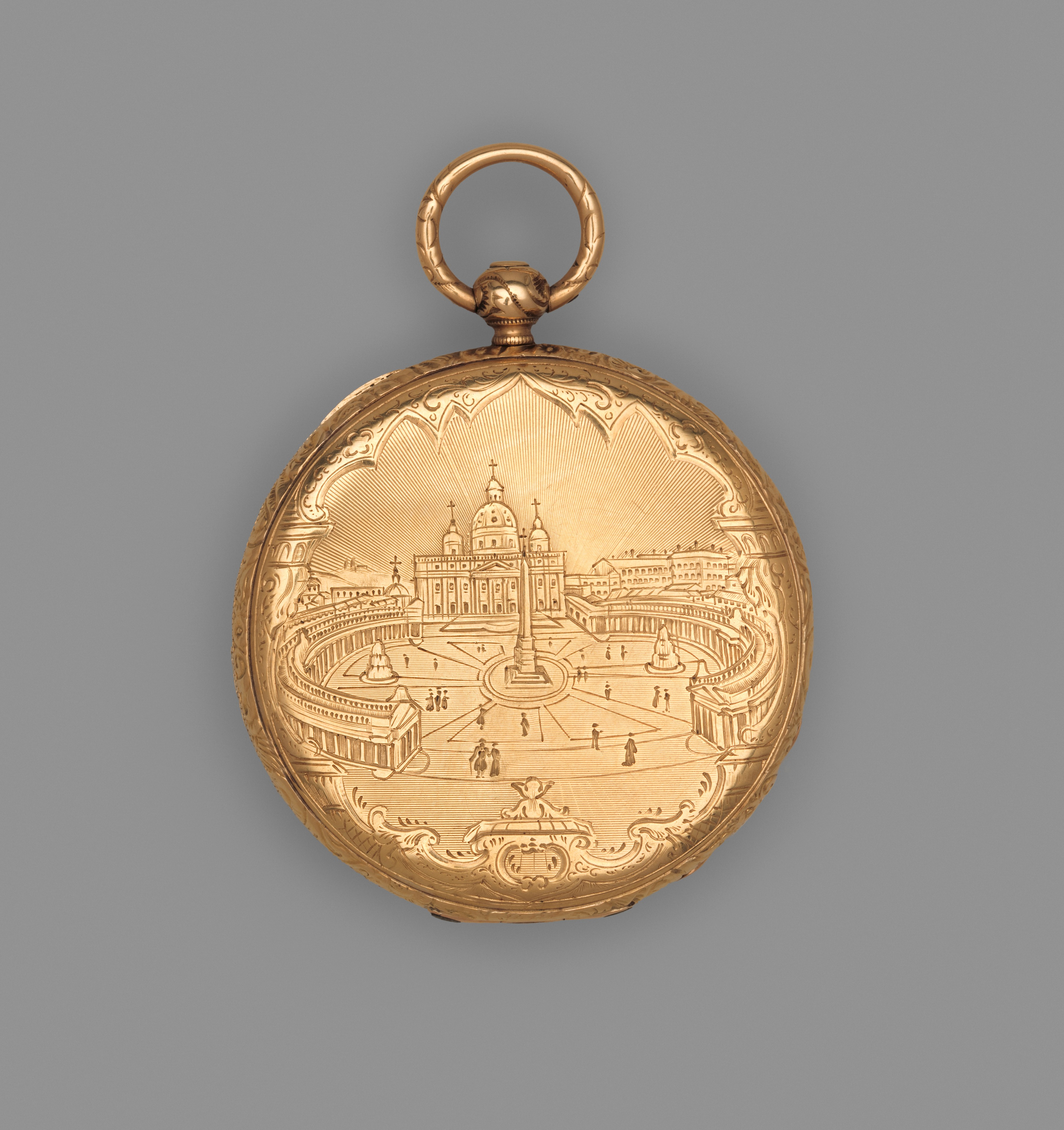 Swiss, Geneva; Watch; Horology